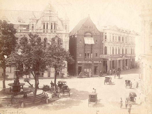 A view of Battery Road, Singapore. The building on the right of the Medical Hall is Gresham House.